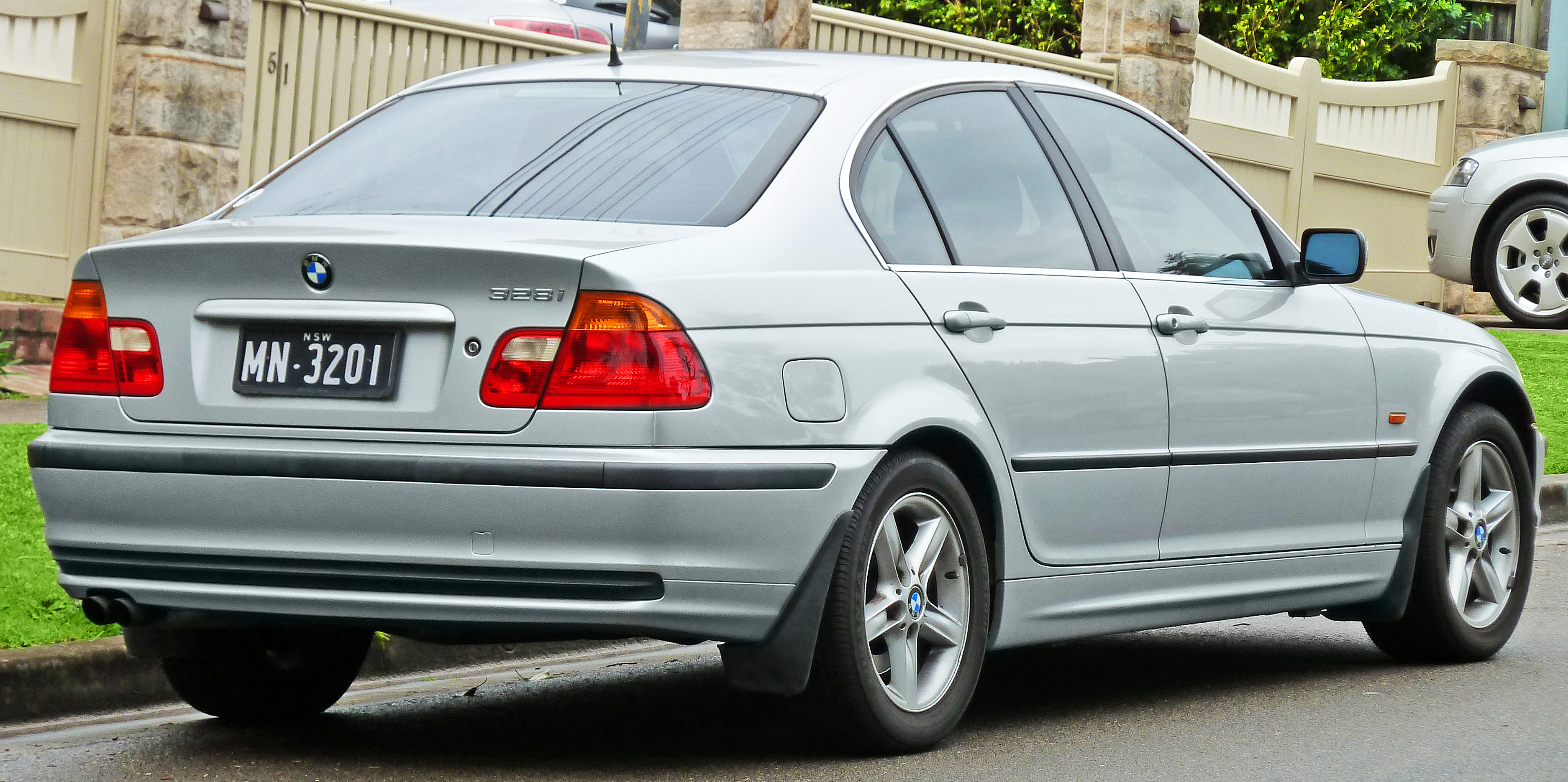 1998–2001 BMW 328i (E46) sedan. Photographed in Lindfield, New South Wales, Australia.